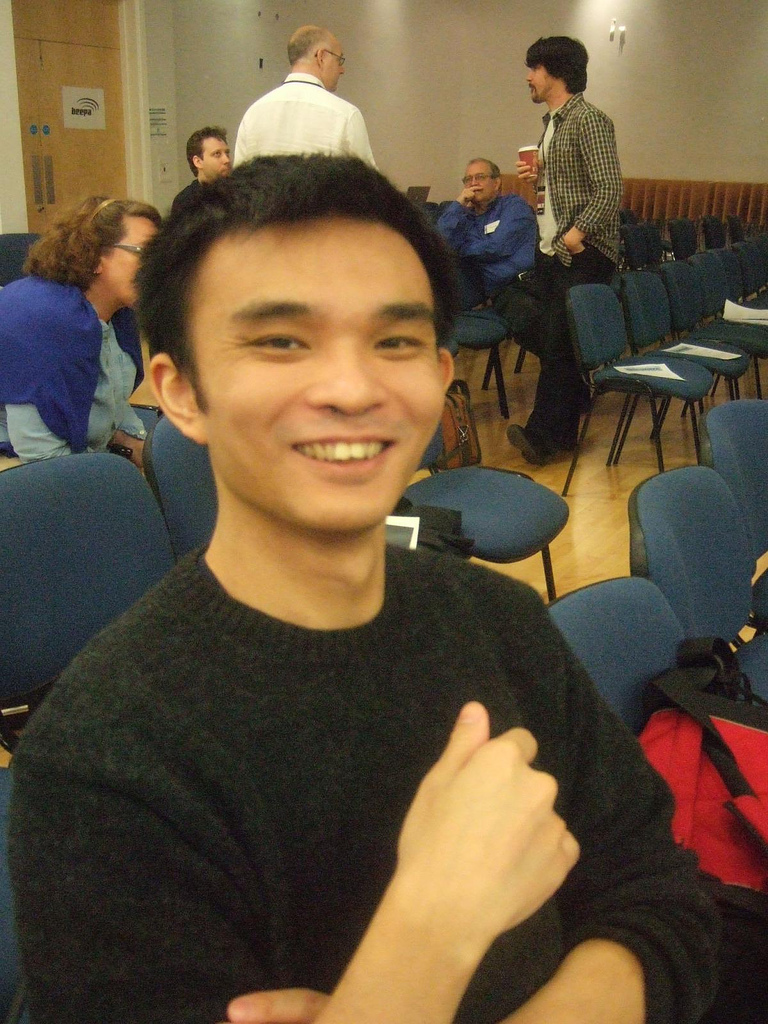 Alex Chan, creator of The French Democracy, at Machinima Festival Europe 2007.